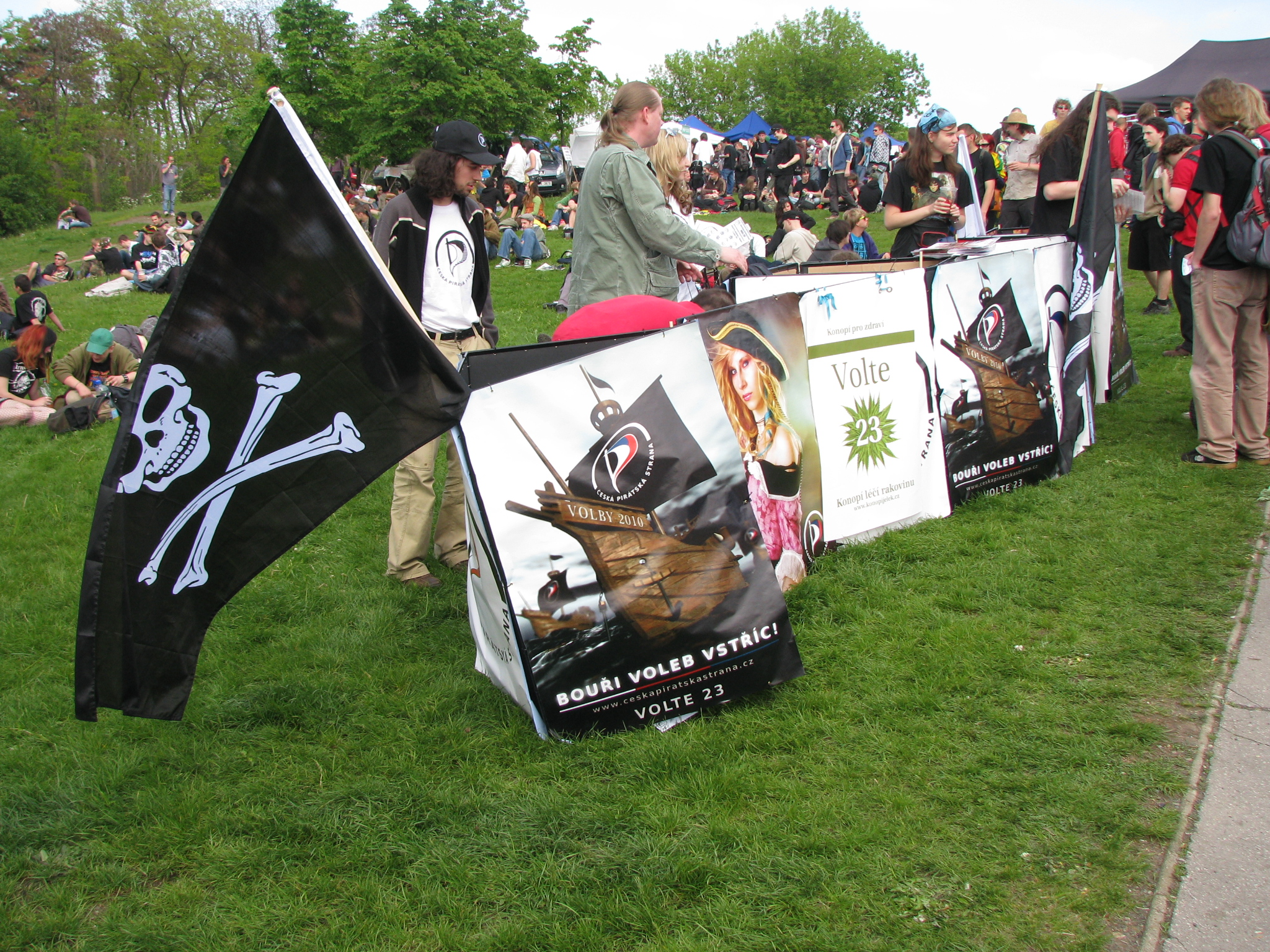 Czech Pirate Party on Milion Marihuana March at Prag